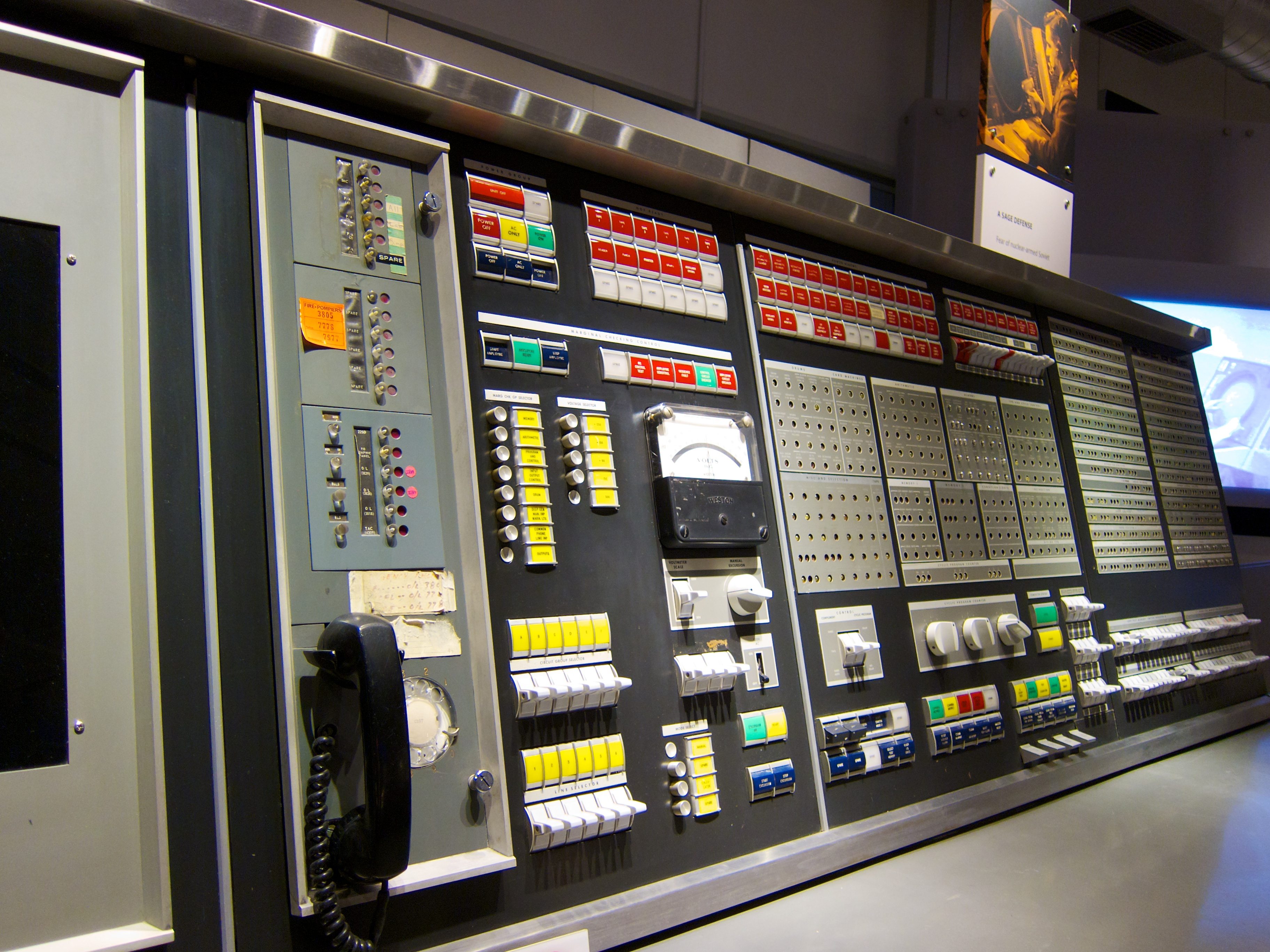 SAGE computer console at the Computer History Museum.